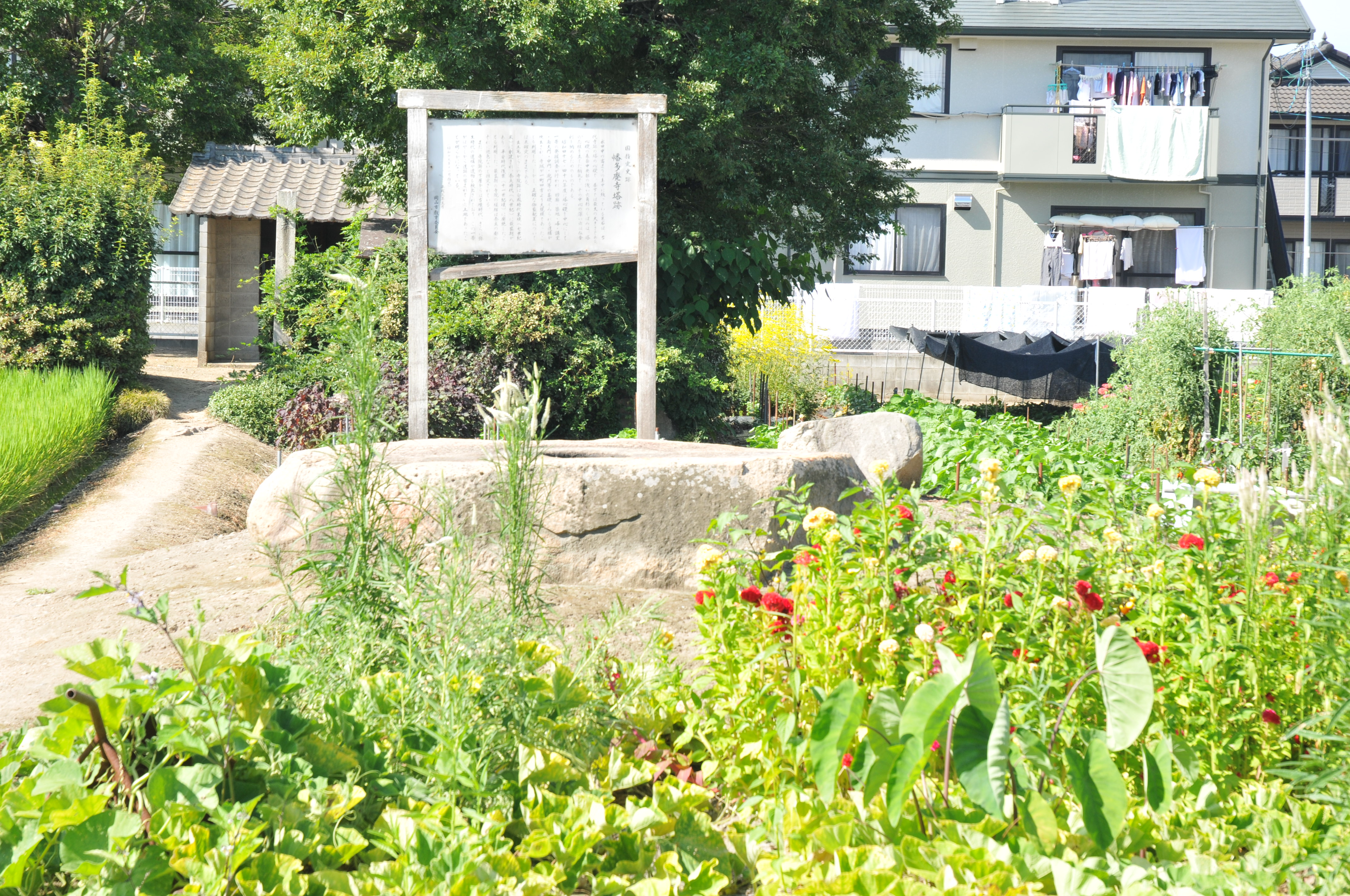 view of Hata dilapidated temple's pagoda ruins